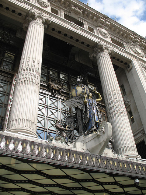 The Queen of Time. Selfridges beautiful Art Deco clock is situated between the columns above the main entrance of the store on Oxford Street. It was designed by the sculptor Gilbert Bayes (1872-1953) around 1925.